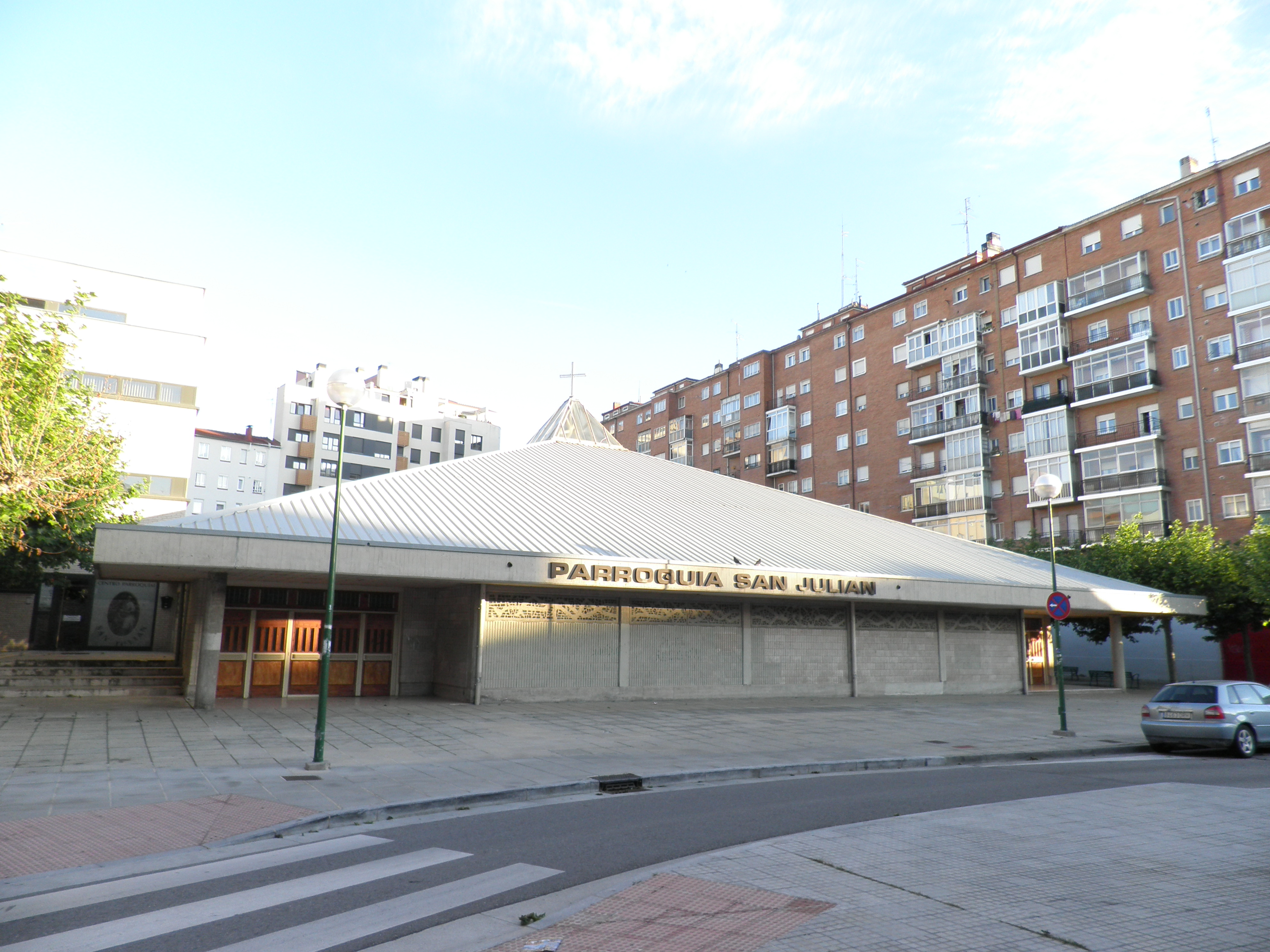 Saint Julian of Cuenca church in Burgos.